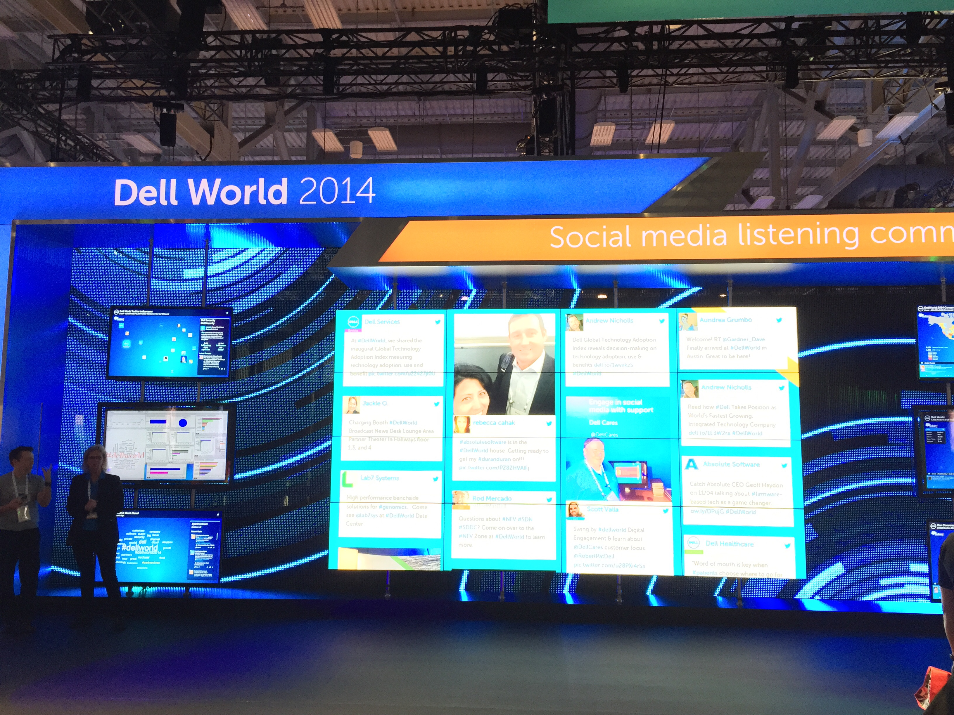 Twitterwall or Dell Social Media listening wall at Dell World 2014